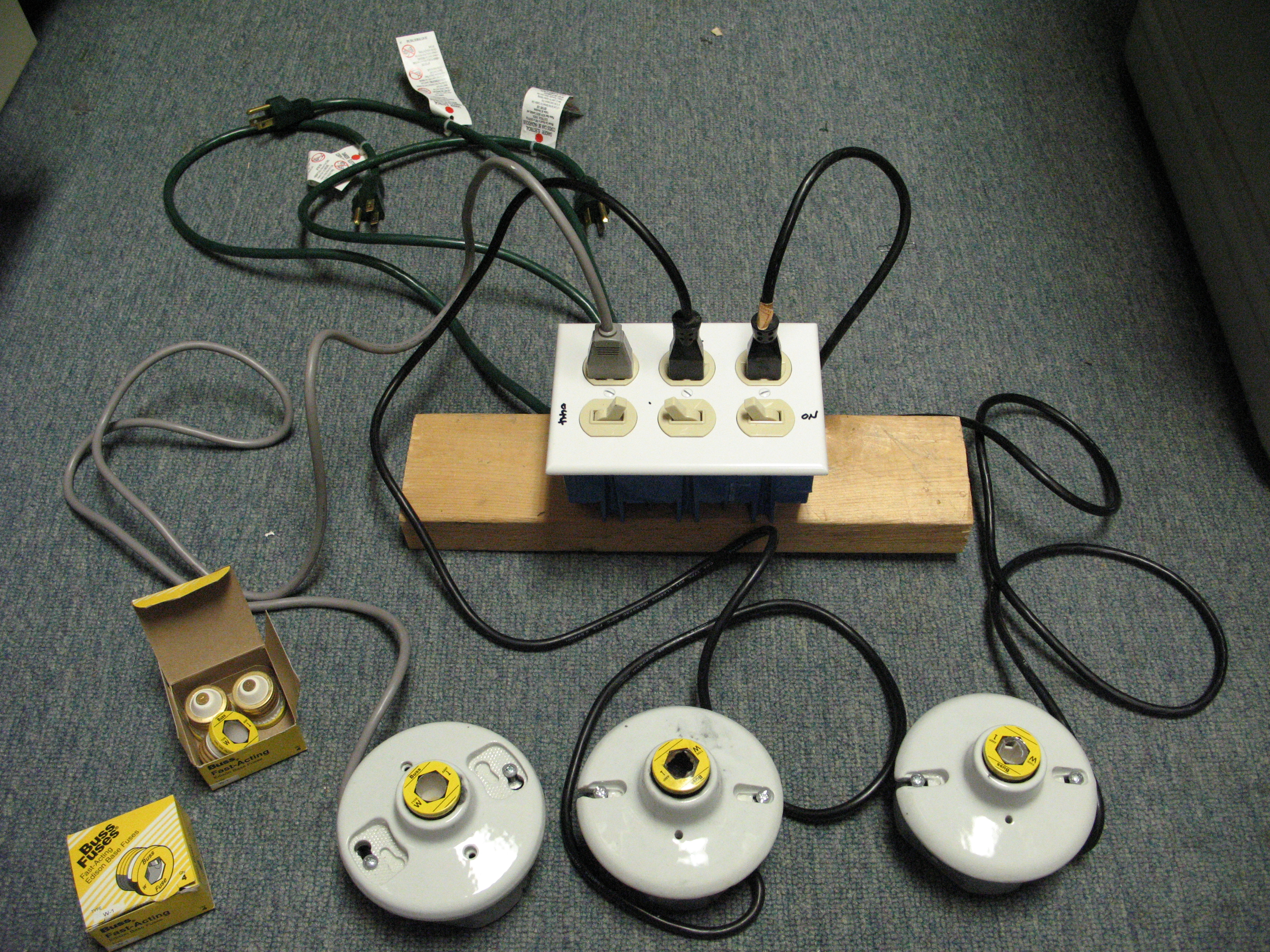 This is an example of a simple homemade pyrotechnic flashpot constructed by amateurs who know just enough about electrical wiring to get themselves into a very hazardous situation. Modified fuses are used as ignitors, with flash powder poured inside the fuse around the fusible link. Direct-shorting the fuse causes the link to melt instantly and ignite the powder. One of the biggest problems with this device is that it does not include any pilot lights, and so in a dark room it may be difficult to know if a socket is powered or not. Screwing a fuse loaded with flash powder into a live socket will cause it to blow up in the face of the stage hand, severely burning and potentially blinding them. Even screwing an "unloaded" fuse without powder into a live socket can suddenly eject a vaporized cloud of metal slag from the fusible link up into the face of the stage hand. Further, since this is assembled by amateurs, grounding may not be observed, hot/neutral polarity may be reversed, and since this circuit has no electrical isolation transformer, the socket shell can pose an electrocution hazard to anyone handling the fixture or the fuses. Attempting to use fuses 10 amps or larger as an ignitor can cause much larger 100 amp to 600 amp fuses and breakers to trip, causing widespread building disruption. This occurs because protection is designed to trip instantly if a sufficient amount of current passes in a very short period. Several hundred amps can potentially pass through a small direct-shorted fuse for a few milliseconds before it melts or vaporizes. This is an all-around disaster waiting to happen, and if a fire marshall were to see this in use, the stage/venue could very well be closed for unsafe operating conditions.